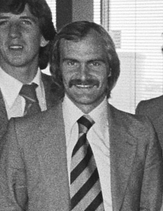 Mick Mills in 1978.